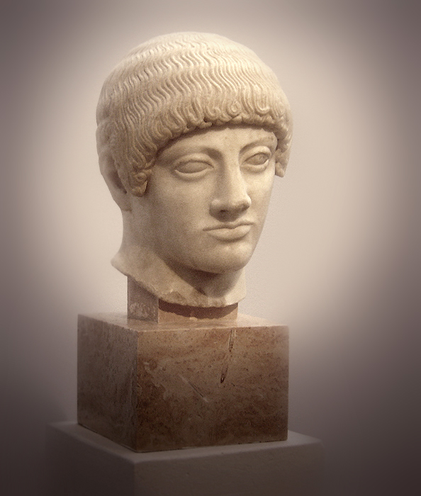 So-called “Blond Kouros” head, fragment from the statue of a youth (the hips also survive as a fragment). Marble with traces of brown-blond painting on the hair, ca. 490–480 BC. Found on the Acropolis. Acropolis Museum in Athens.